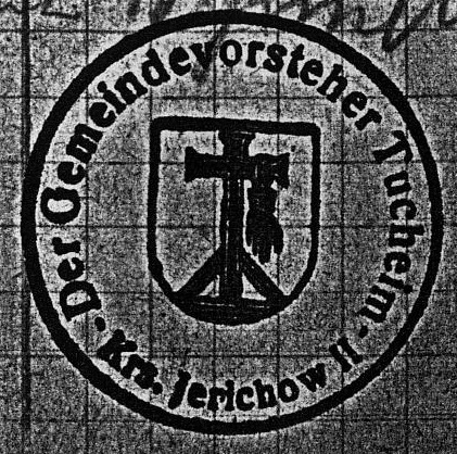 Seal of Tucheim, Germany